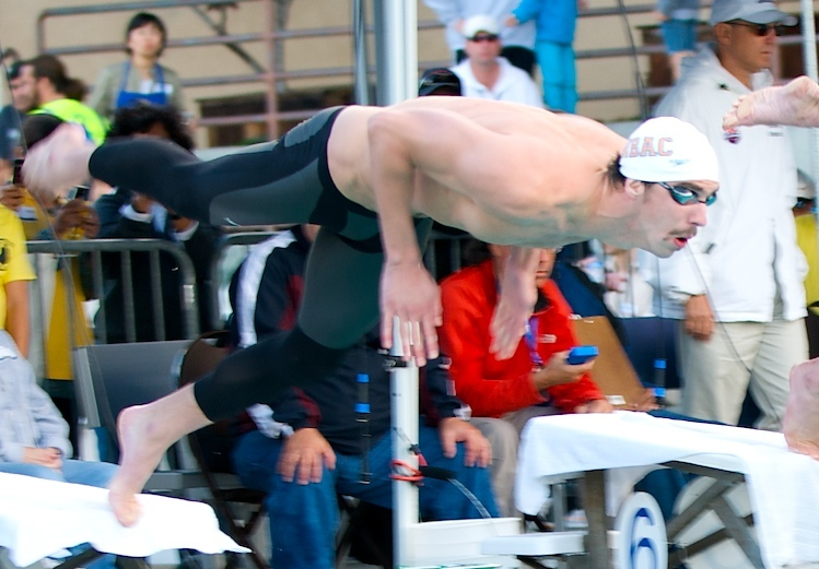 Michael Phelps starting a race, Santa Clara, California, 2009.